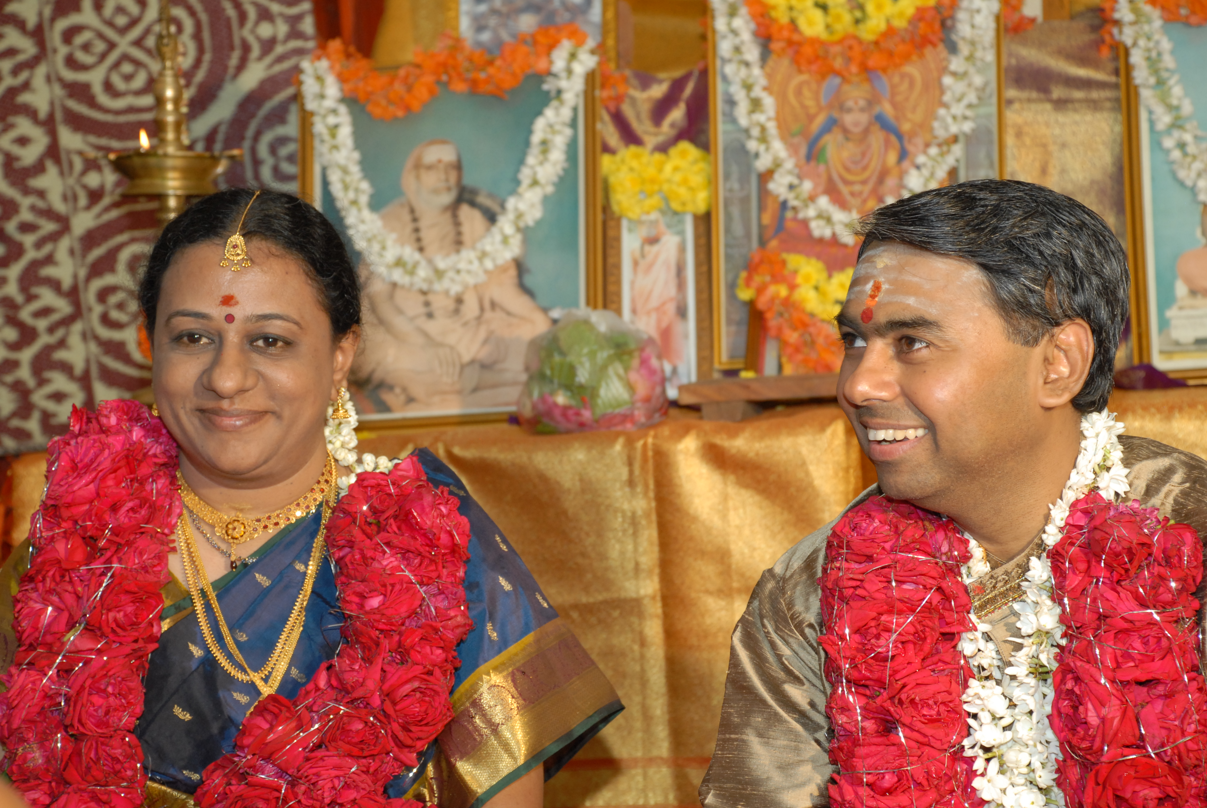 Akhila and R.K. Shriramkumar were married in 2009.